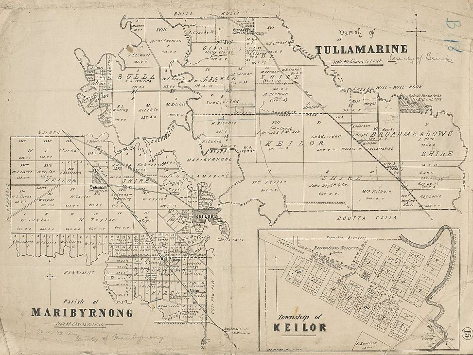 Cadastral map showing property boundaries in the Parishes of Tullamarine and Maribyrnong, Victoria.